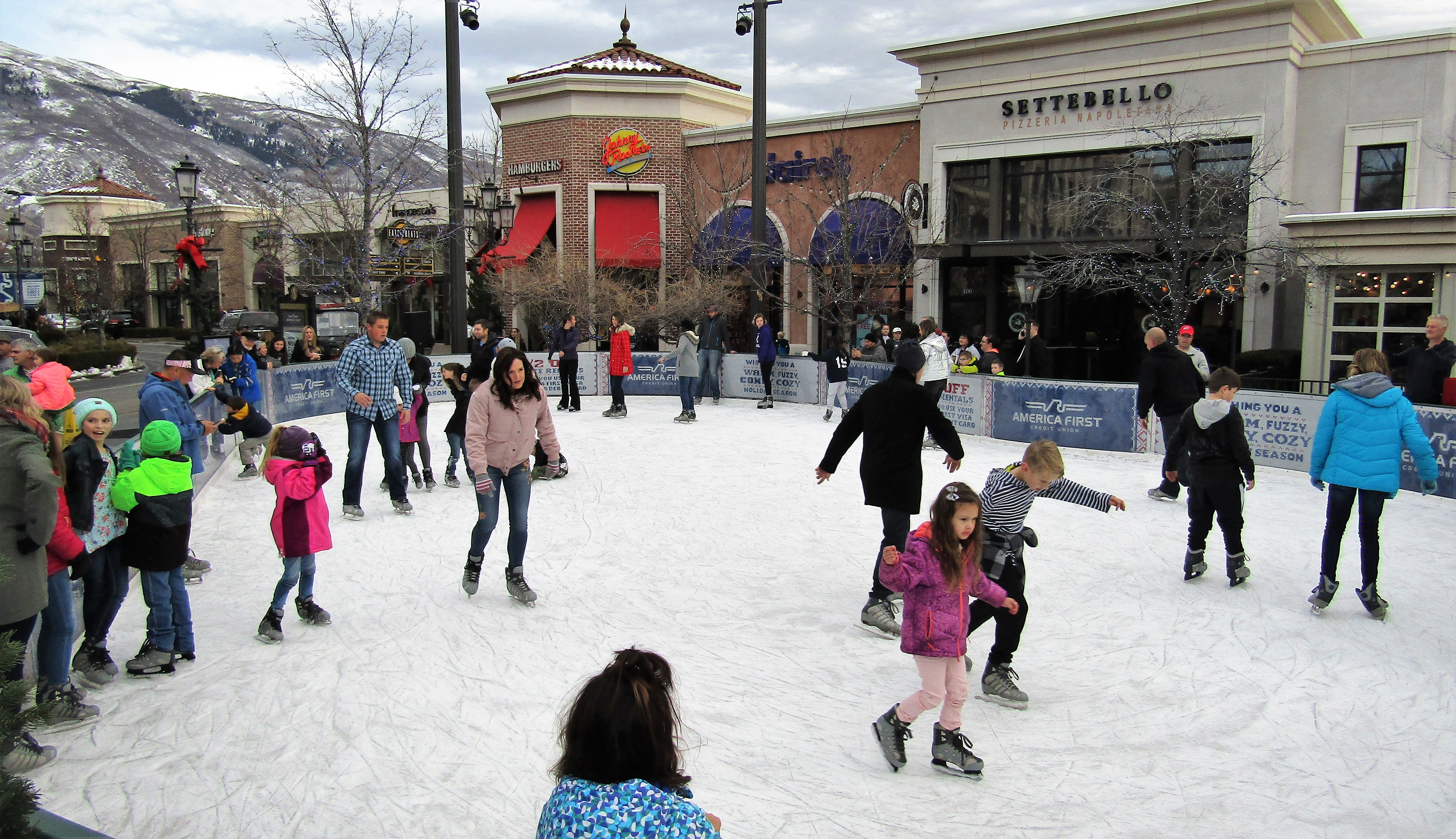 People ice skating at Station Park in Farmington, Utah.